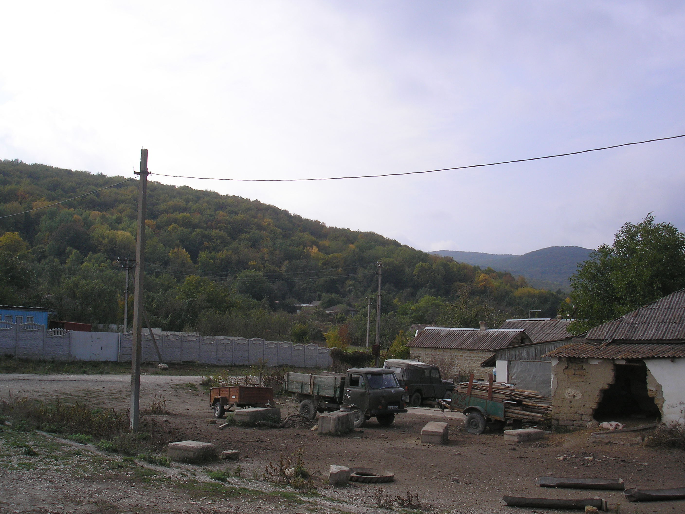 Village Povorotnoe, Belogorsky region, Crimea